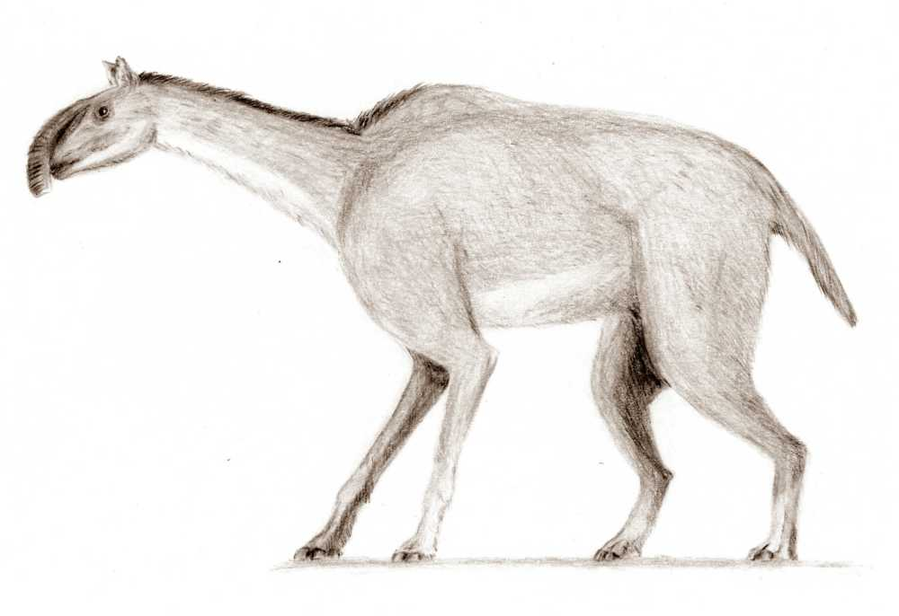 Macrauchenia. Author:User:ArthurWeasley